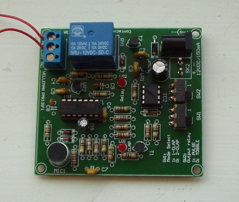 A photo of a Velleman MK139 clap on/off switch electronic project in the form of a printed circuit board.